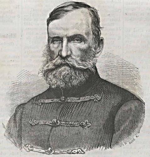 Portrait of Károly Hajnik